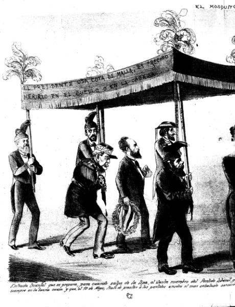 Caricature from argentinian newspaper El Mosquito.